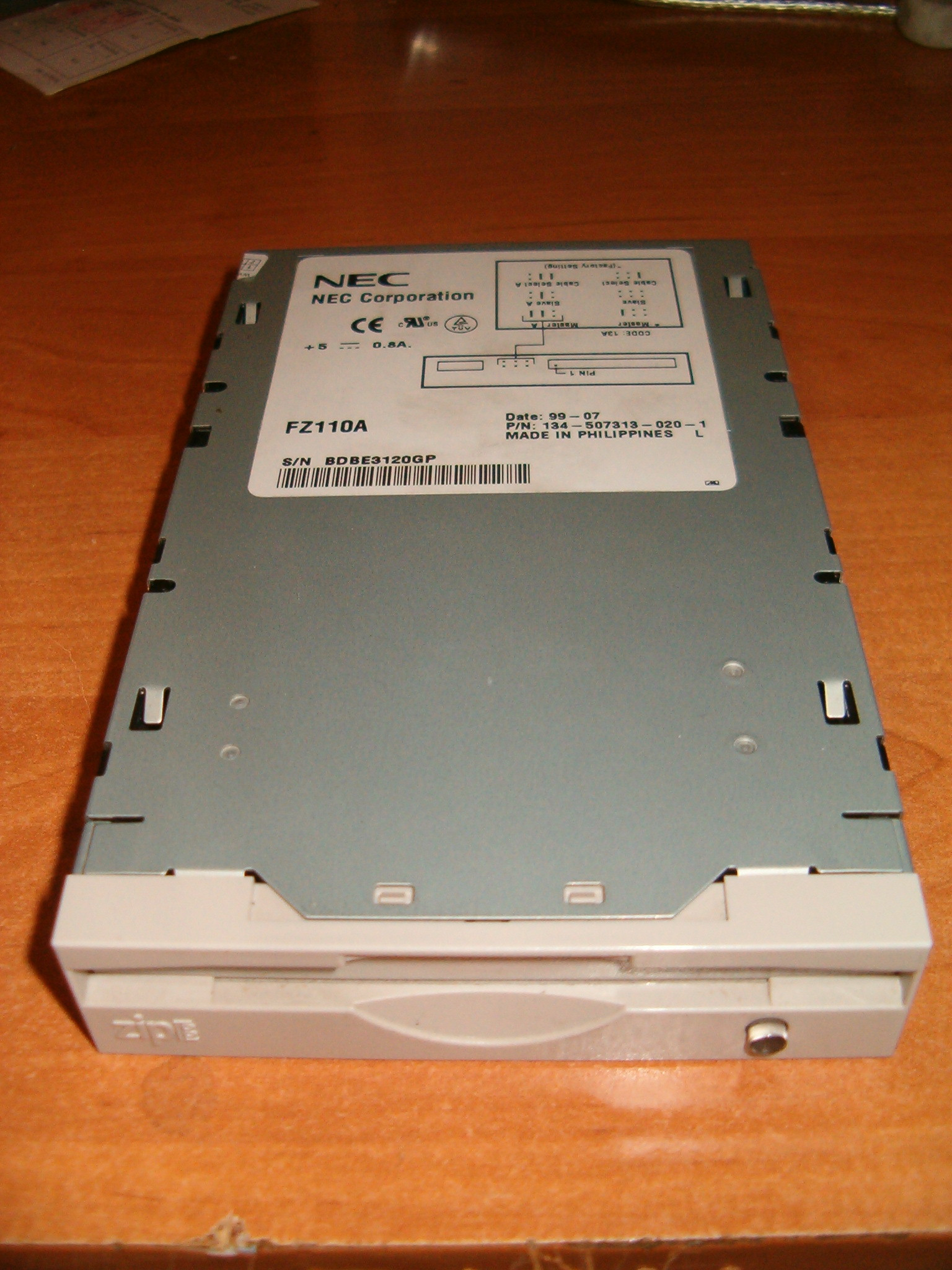 NEC zip drive FZ110A. 中文（台灣）: NEC製造的zip軟碟機FZ110A，只能讀取zip100磁碟片。